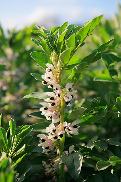 Broad beans growing in fields at Kilmeston. At least, I assume they are broad beans.